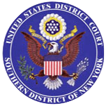 Official seal of the United States District Court for the Southern District of New York.